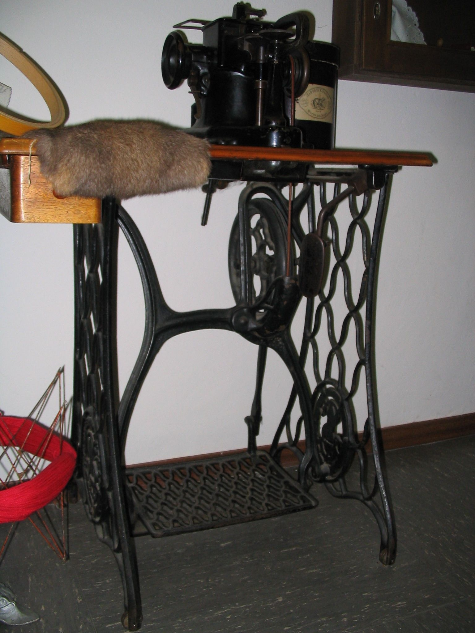 Furrier's tools: Fur sewing machine